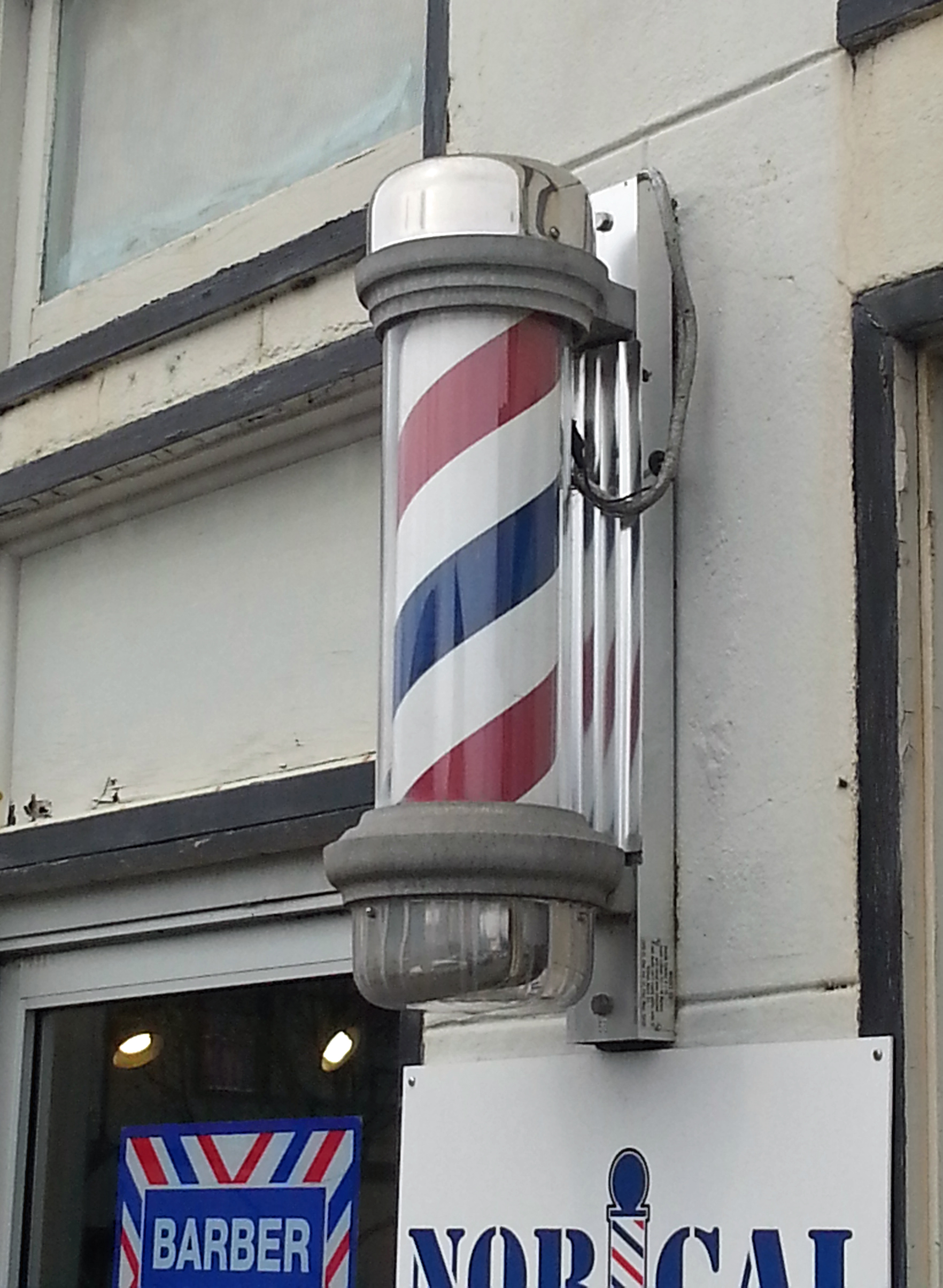 A real old fashioned barbershop pole outside of Norcal Louie's Barbershop, 1110 Main Street, Fortuna, California.